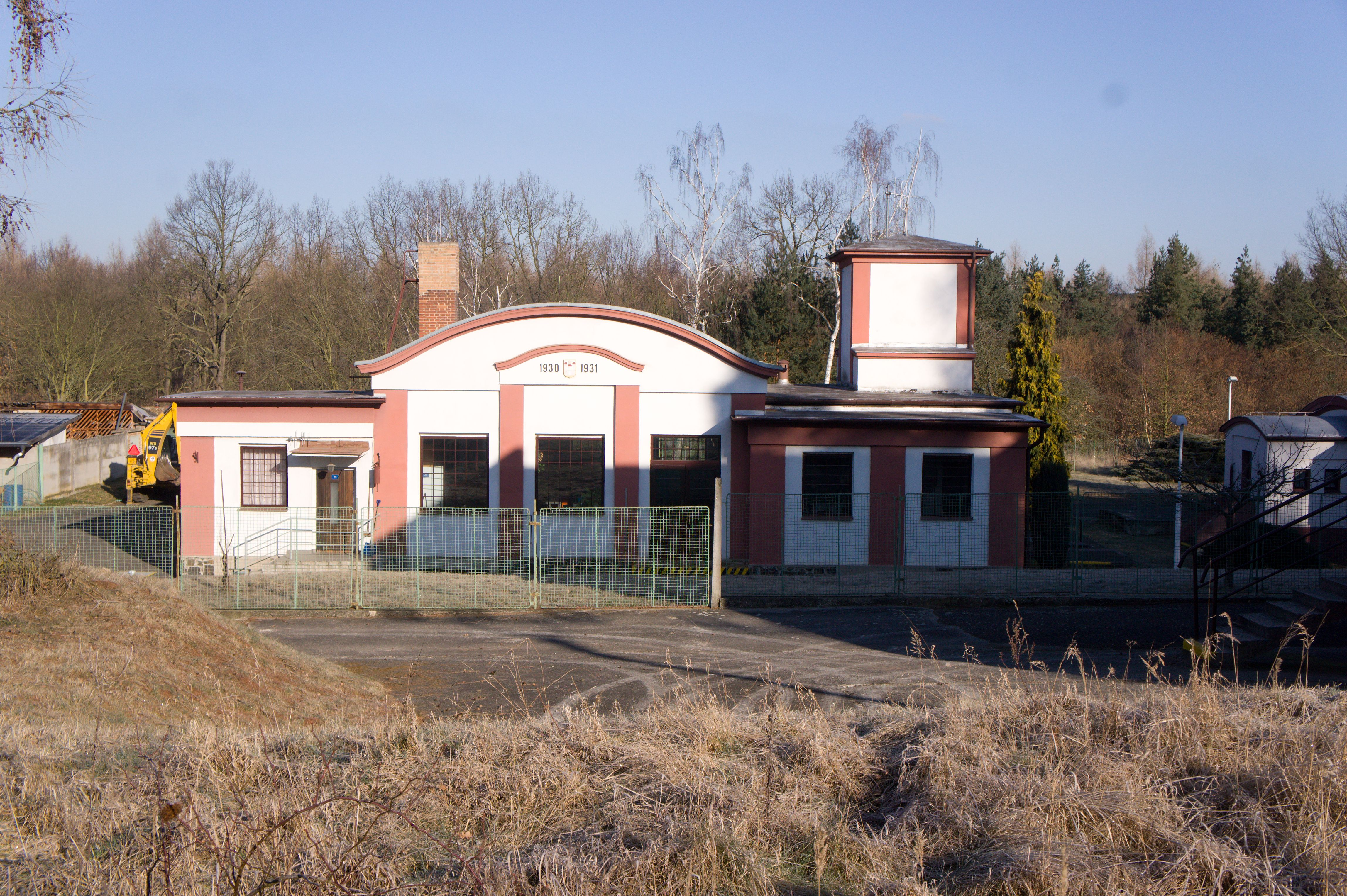 Waterworks in Holedeč from 1934